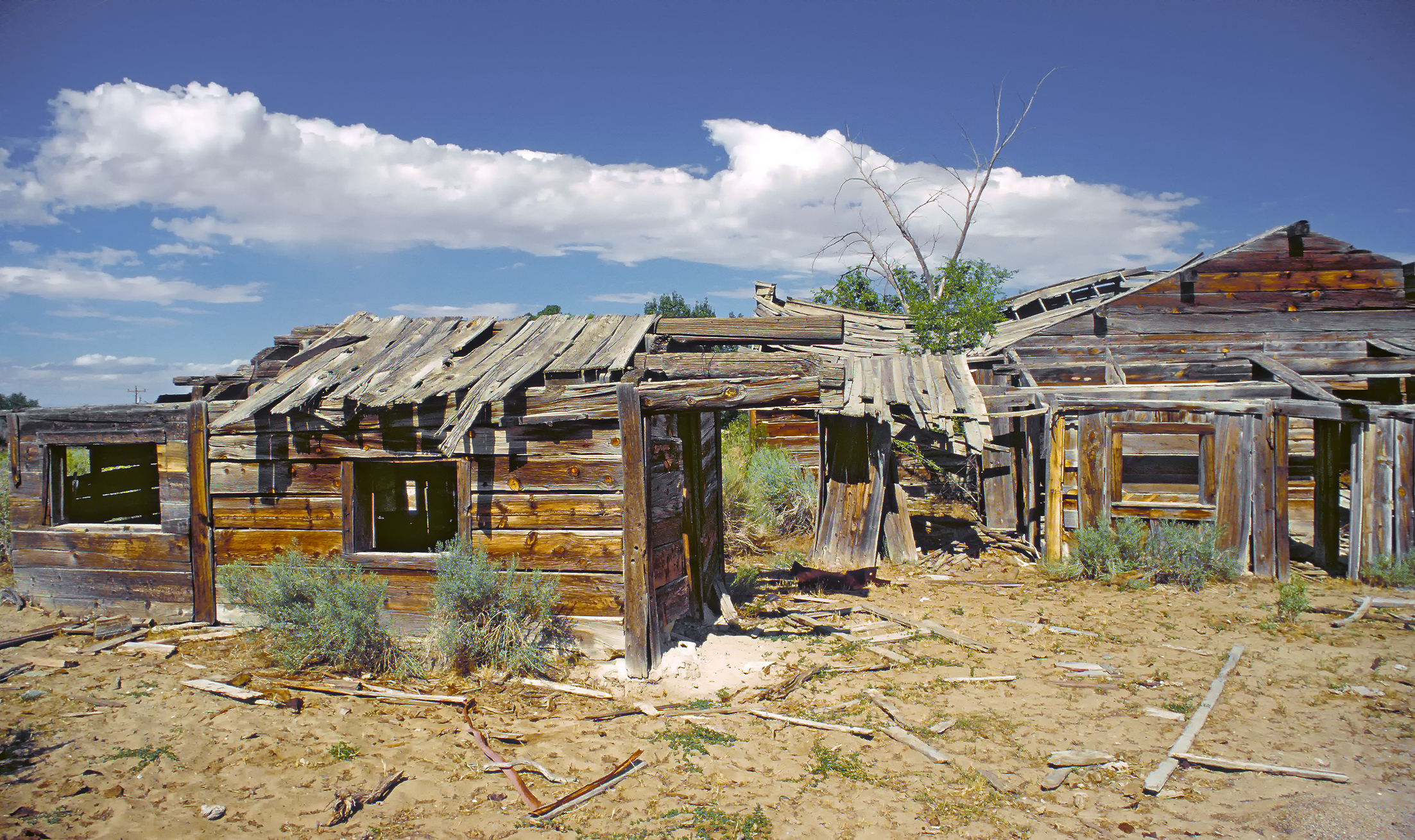 Ghost town Frisco in Beaver County, Utah, USA. It was an active mining camp from 1879 to 1929. Since 2002 it is again an active mining camp.